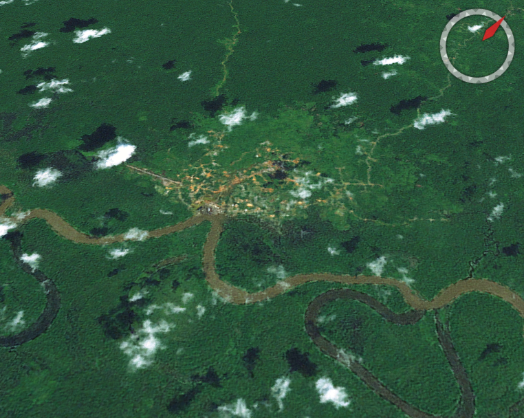 image of Kiunga, Papua New Guinea